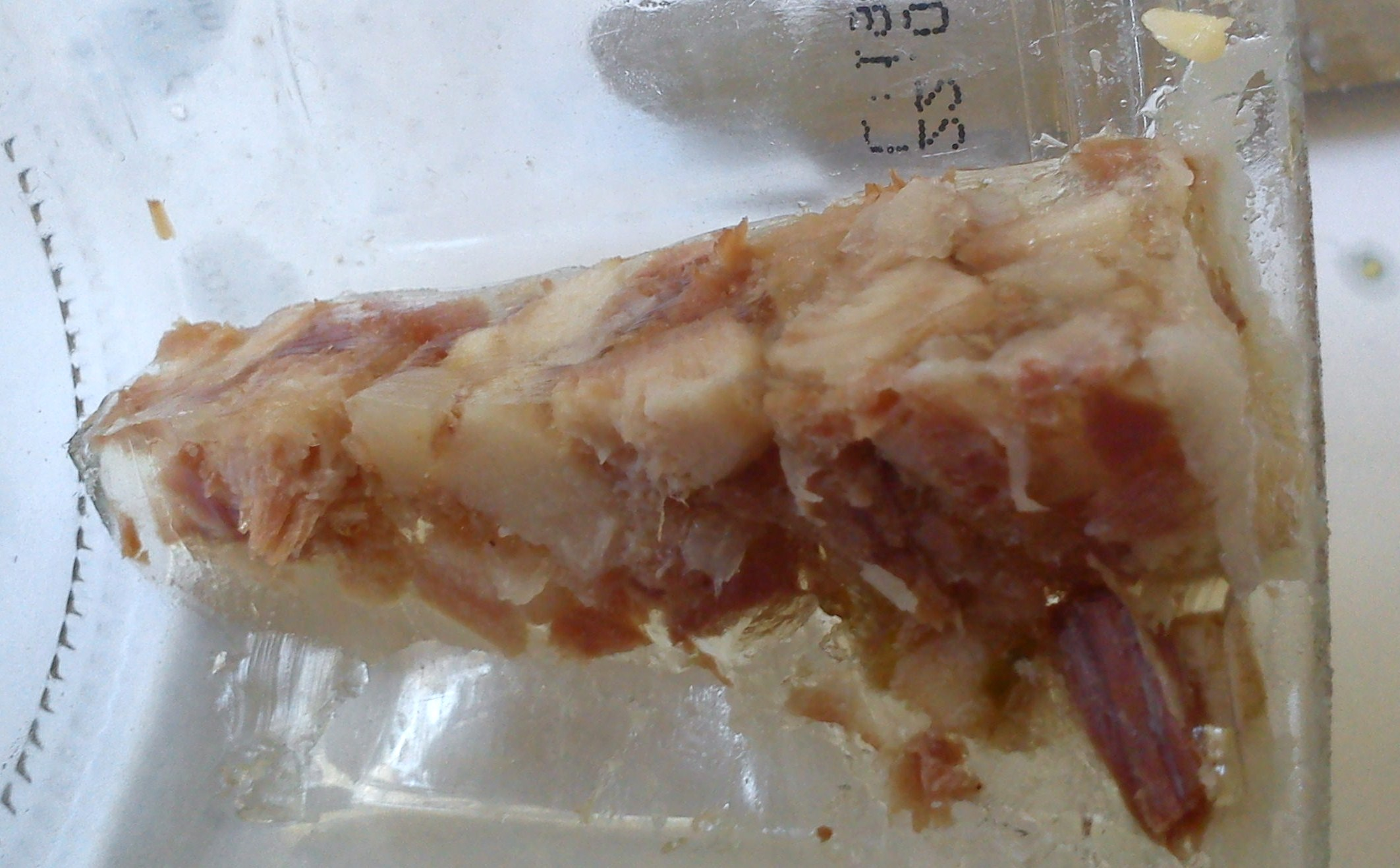 Meat from the pig's head.